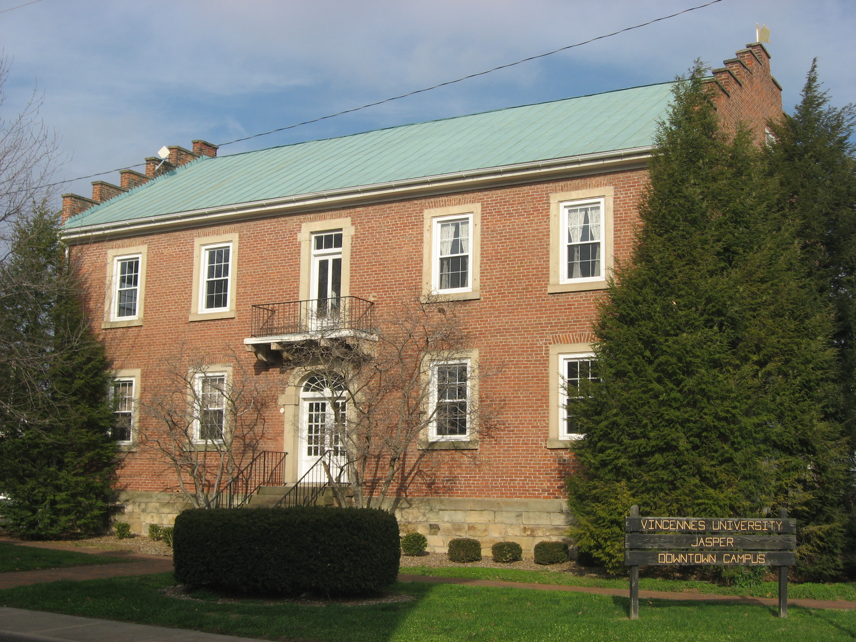 Southern side of the Gramelspacher-Gutzweiler House, located on the northwestern corner of the junction of Eleventh and Main Streets in Jasper, Indiana, United States. Built in 1849 and Jasper's oldest extant house, it is listed on the National Register of Historic Places. It now houses offices for a branch campus of Vincennes University.